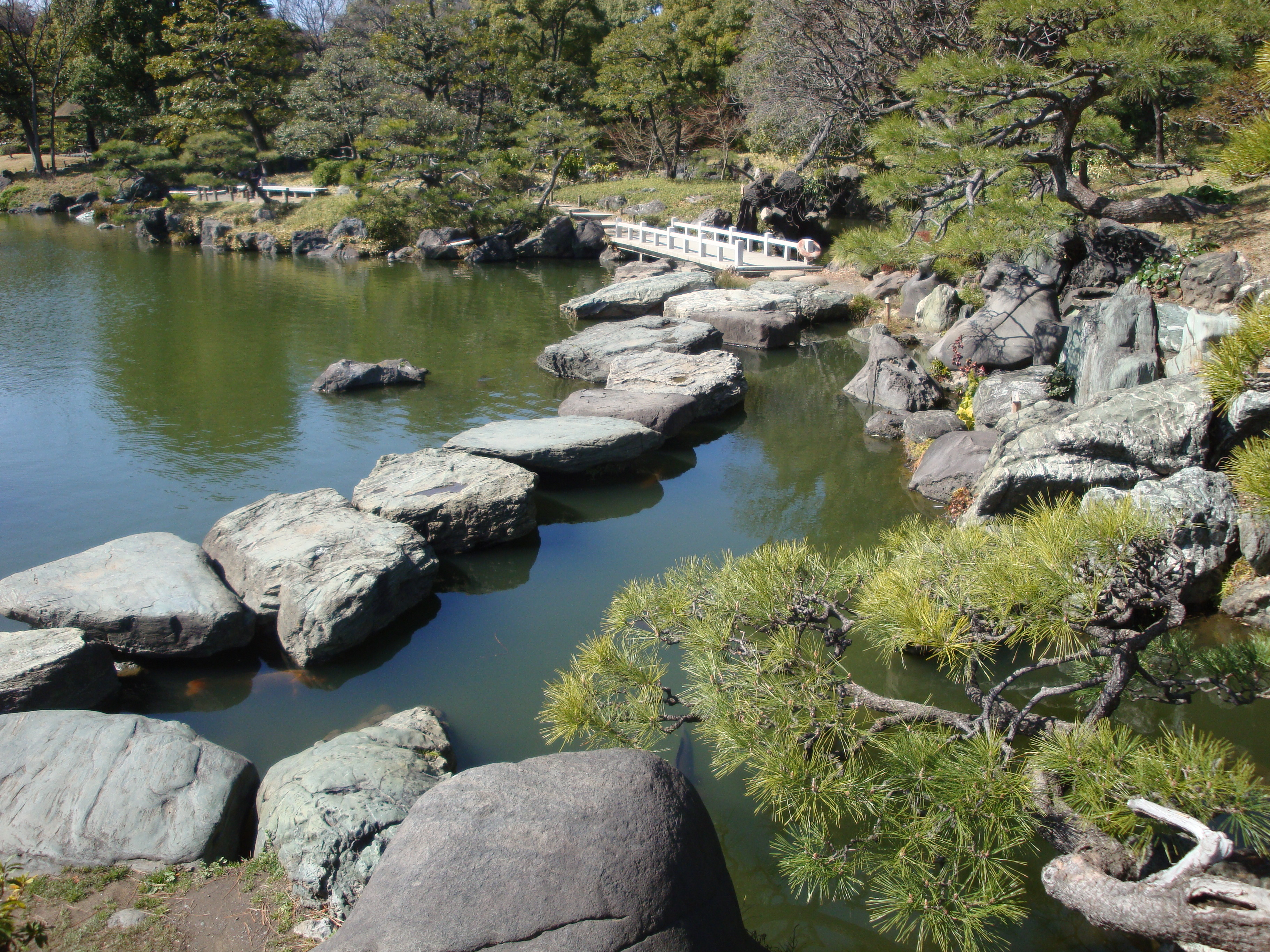 Iso-watari